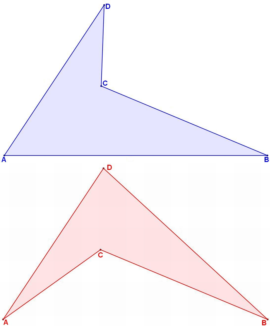 Vertices order: Same points ABCD shape different polygon when in different order